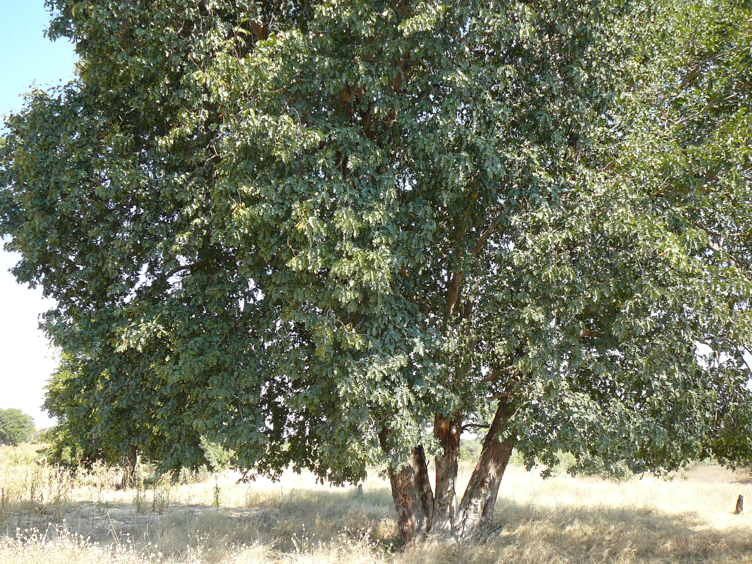 Zambezi teak